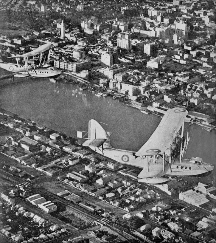 Two RAF Short Rangoon flying boats over the Brisbane River, heading for the mooring buoys. They were completing an exhibition fly-over of the city in 1934.